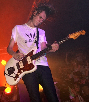 Picture of the former guitarist of the Babyshambles, Patrick Walden.